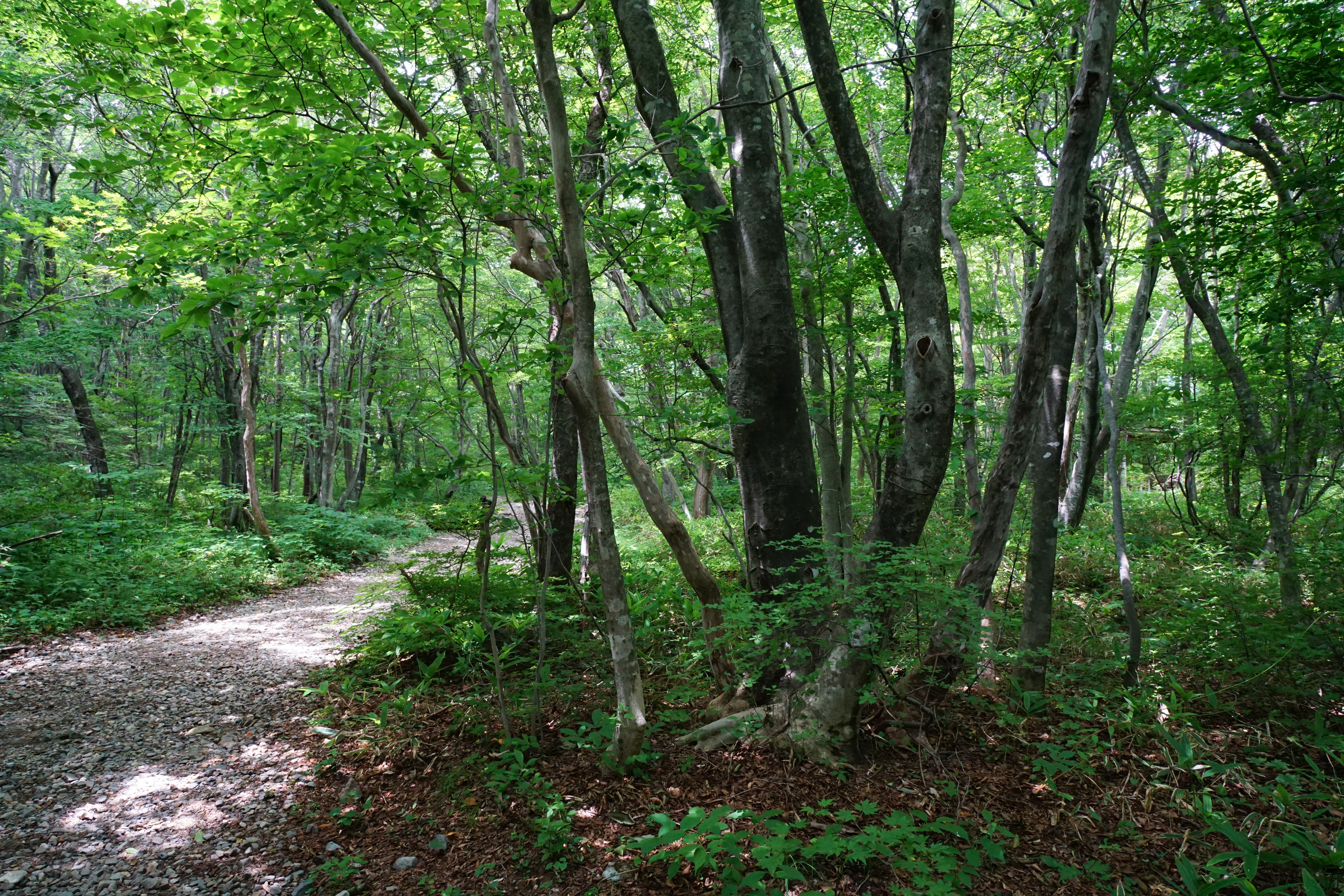 Nasu_Heisei-no-mori_Forest in Nasu, Tochigi prefecture, Japan